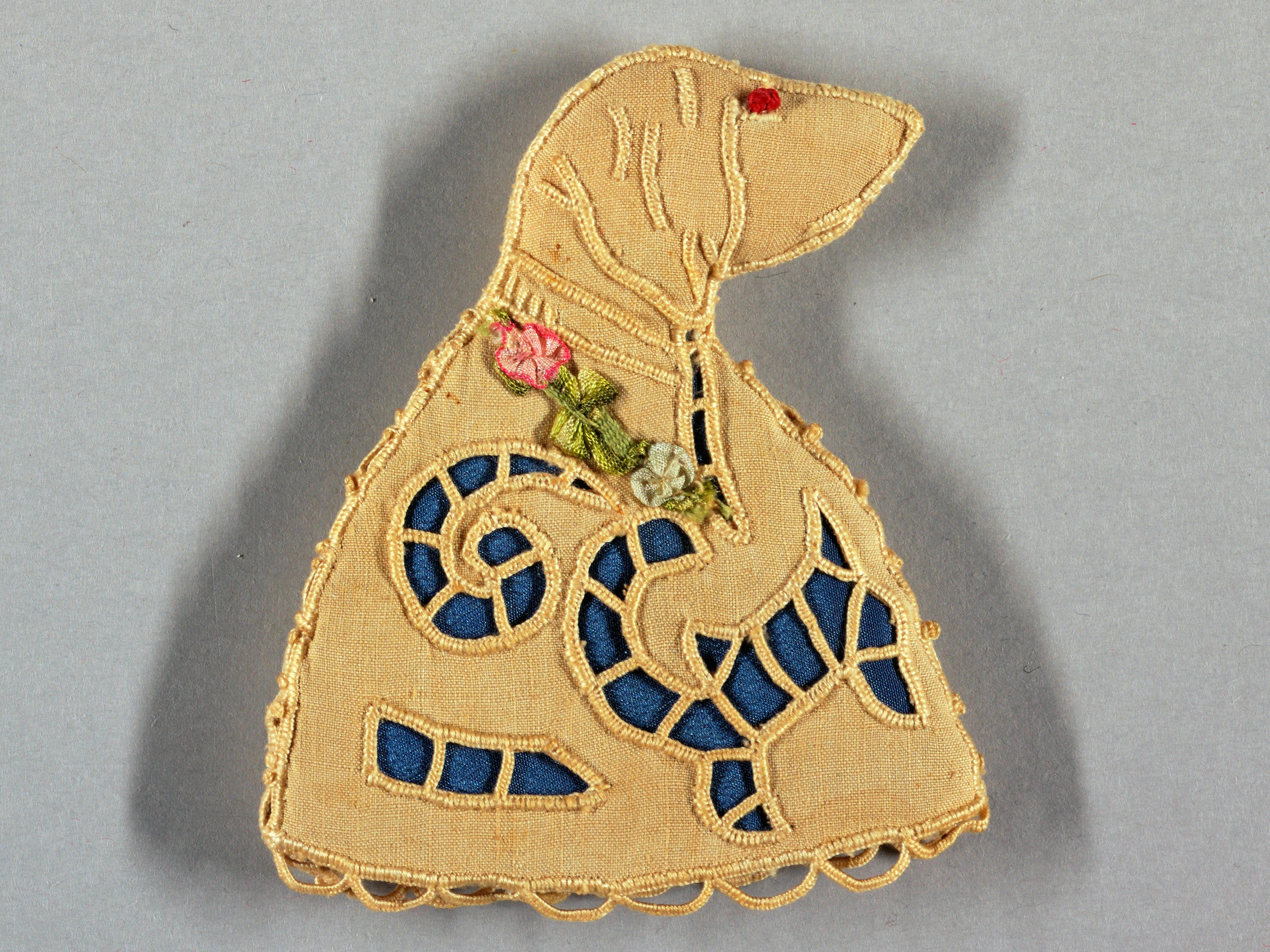 Head of a hound dog on the top half of an oval. Patterend with cutwork designs. A collar of flowers made of ombre woven ribbon around the dog's neck. The eye is a knot of red silk. see above